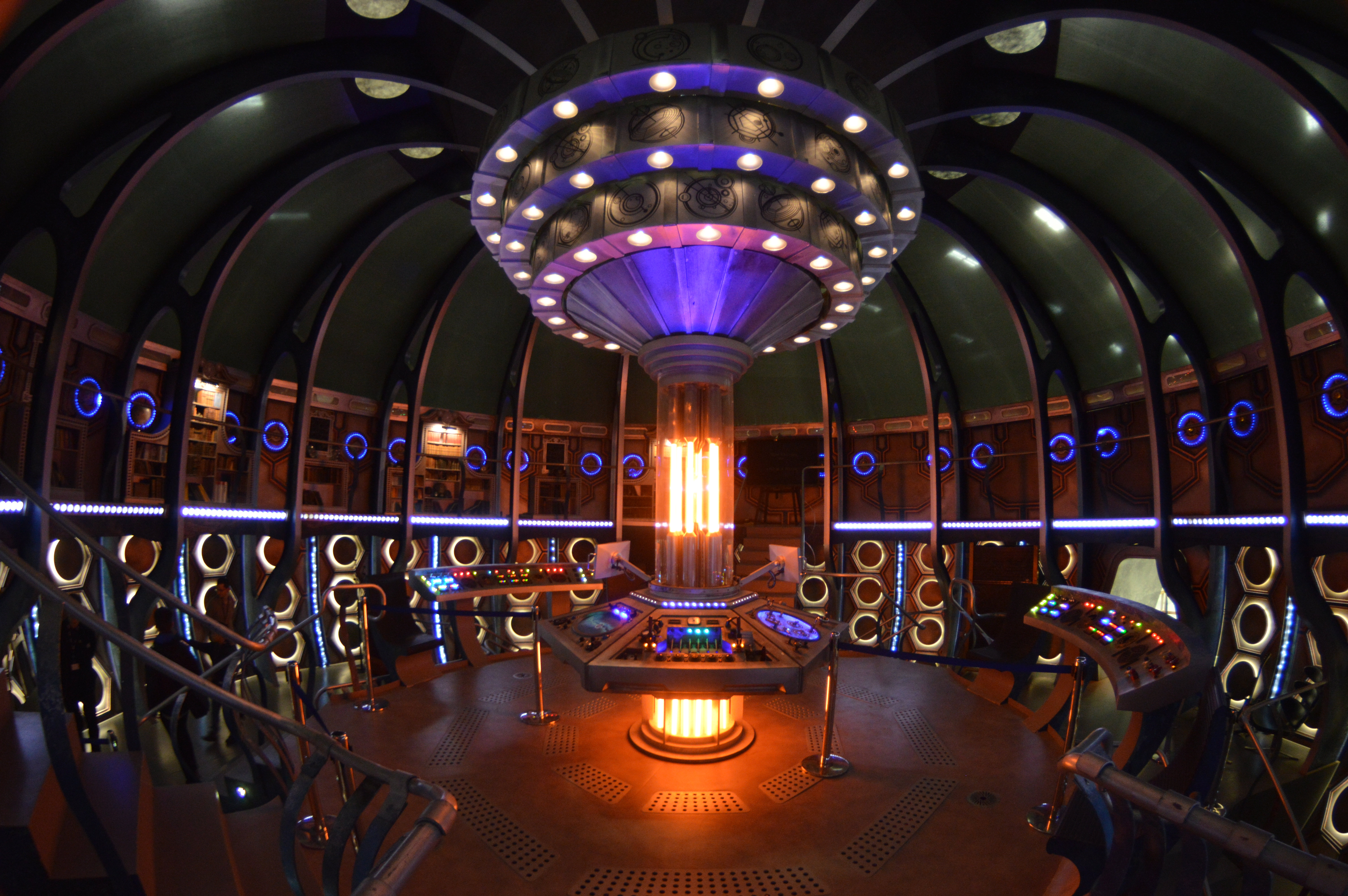 Peter Capaldi's TARDIS Set Doctor Who Experience